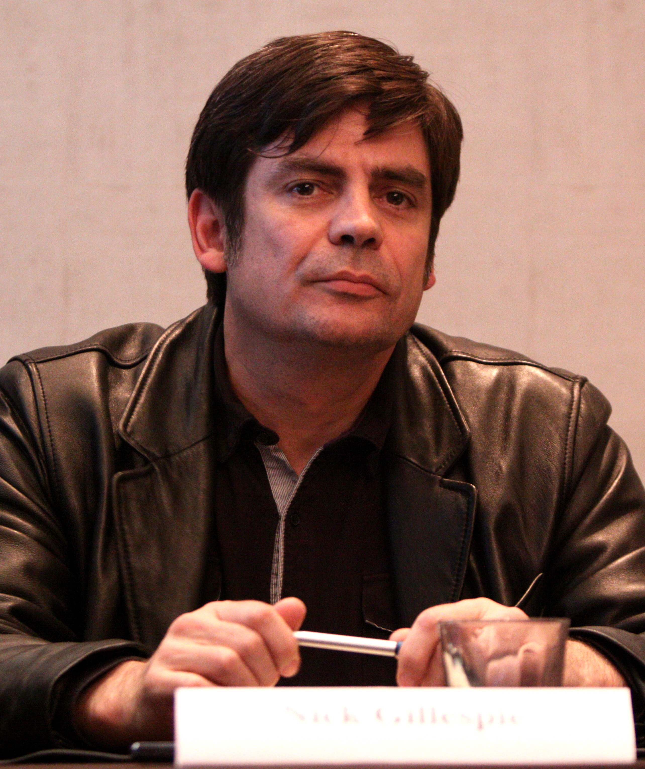 Nick Gillespie speaking at the 2013 ISFLC conference in Washington, DC on February 16, 2013.